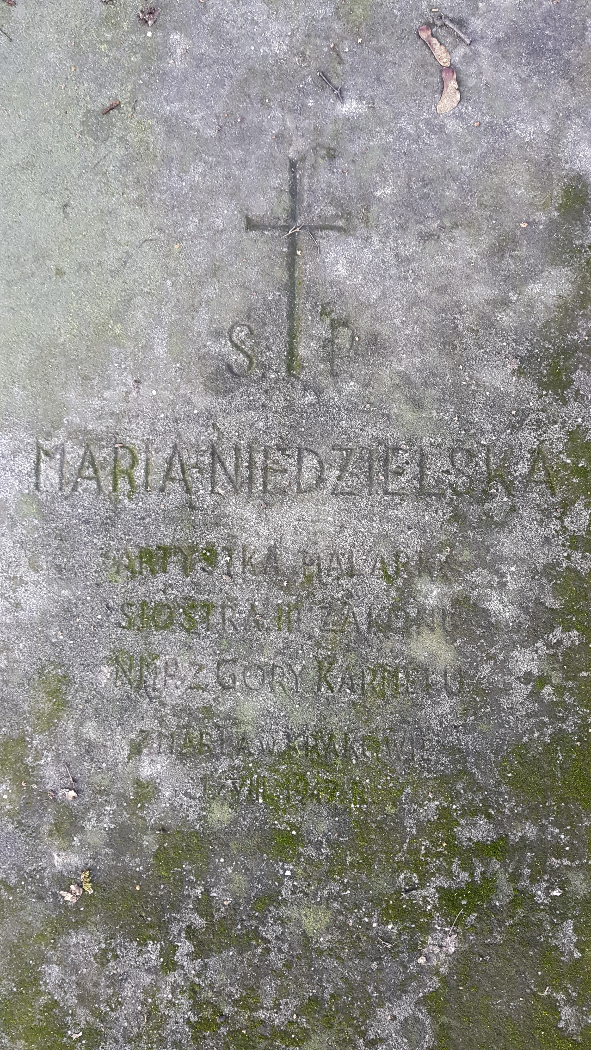 Inscription on the grave of Maria Niedzielska.